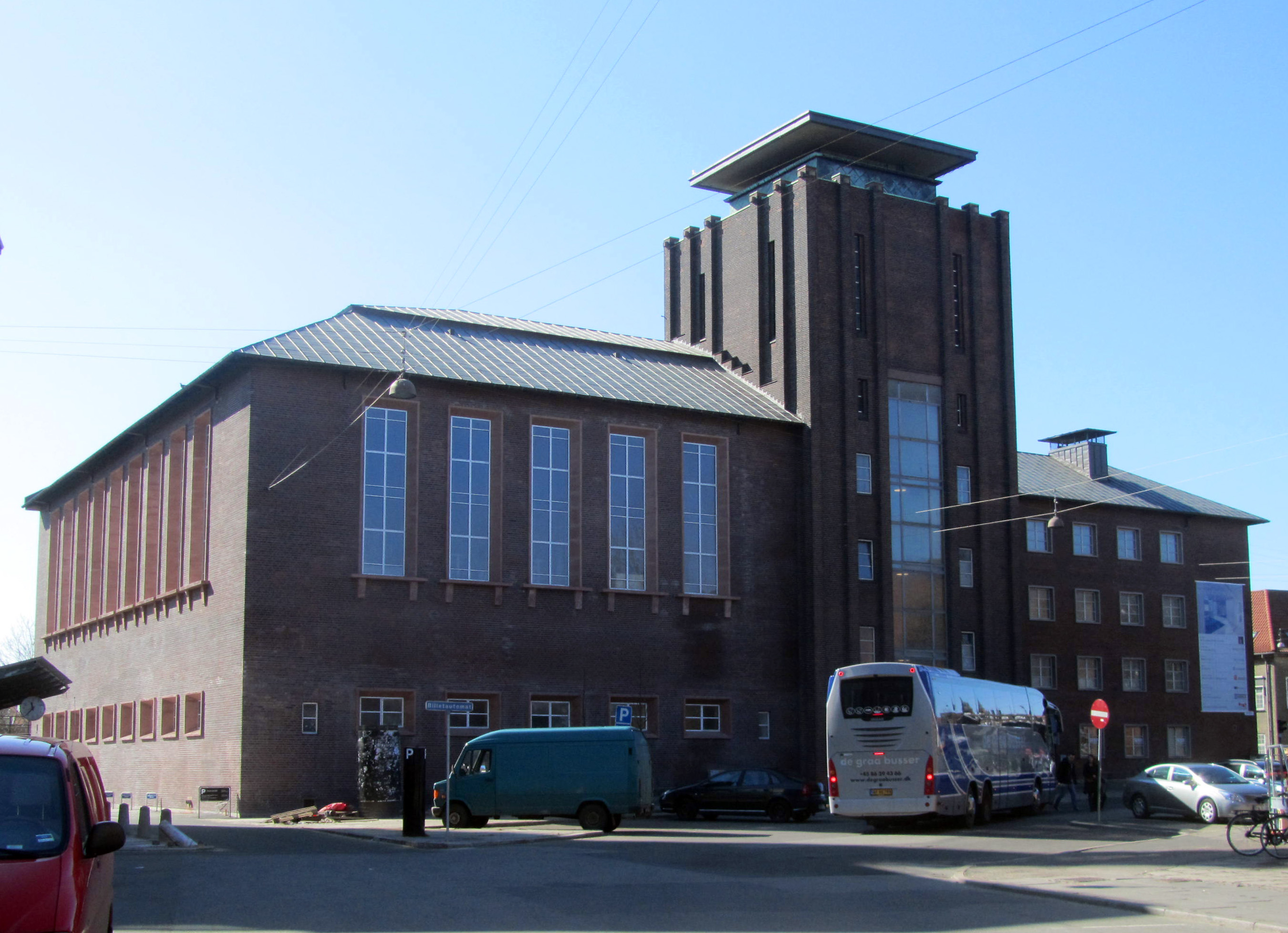 The bathhouse of "Badeanstalten Spanien" in Aarhus, seen from the north. After the renovation project.